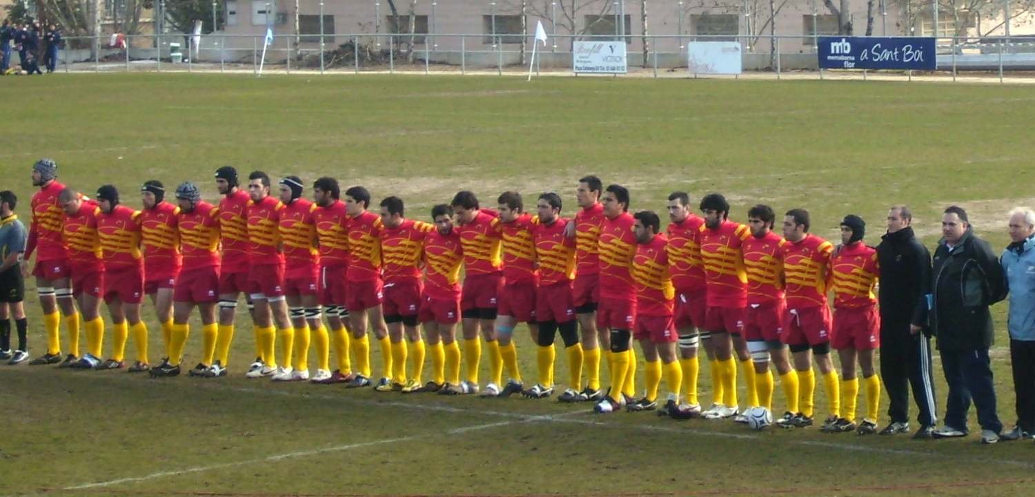 Catalonia - Sweden rugby union match, at Baldiri Aleu stadium in Sant Boi de Llobregat, 14 Feb 2010.